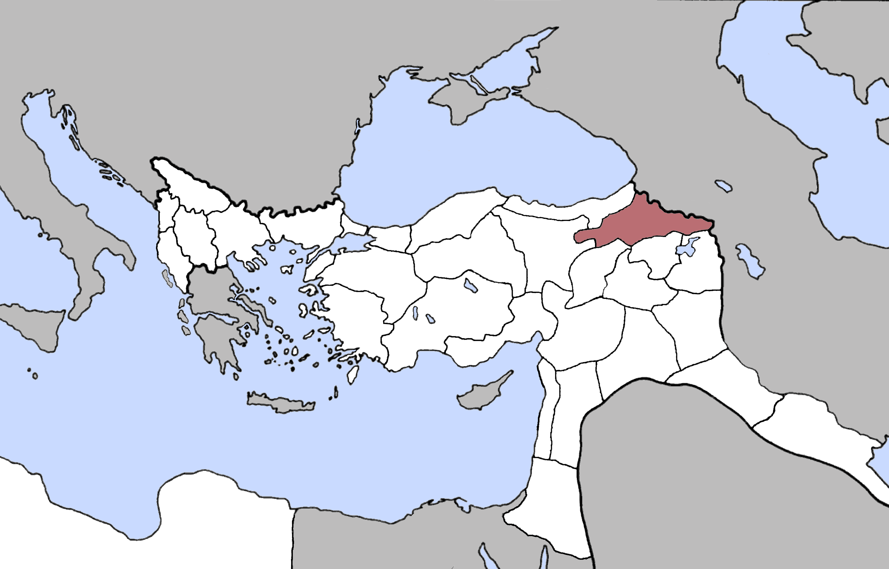 XY Vilayet, Ottoman Empire (1900). Source: An Economic and Social History of the Ottoman Empire, Volume 2 at Google Books By Suraiya Faroqhi, Bruce McGowan, Donald Quataert, Sevket Pamuk